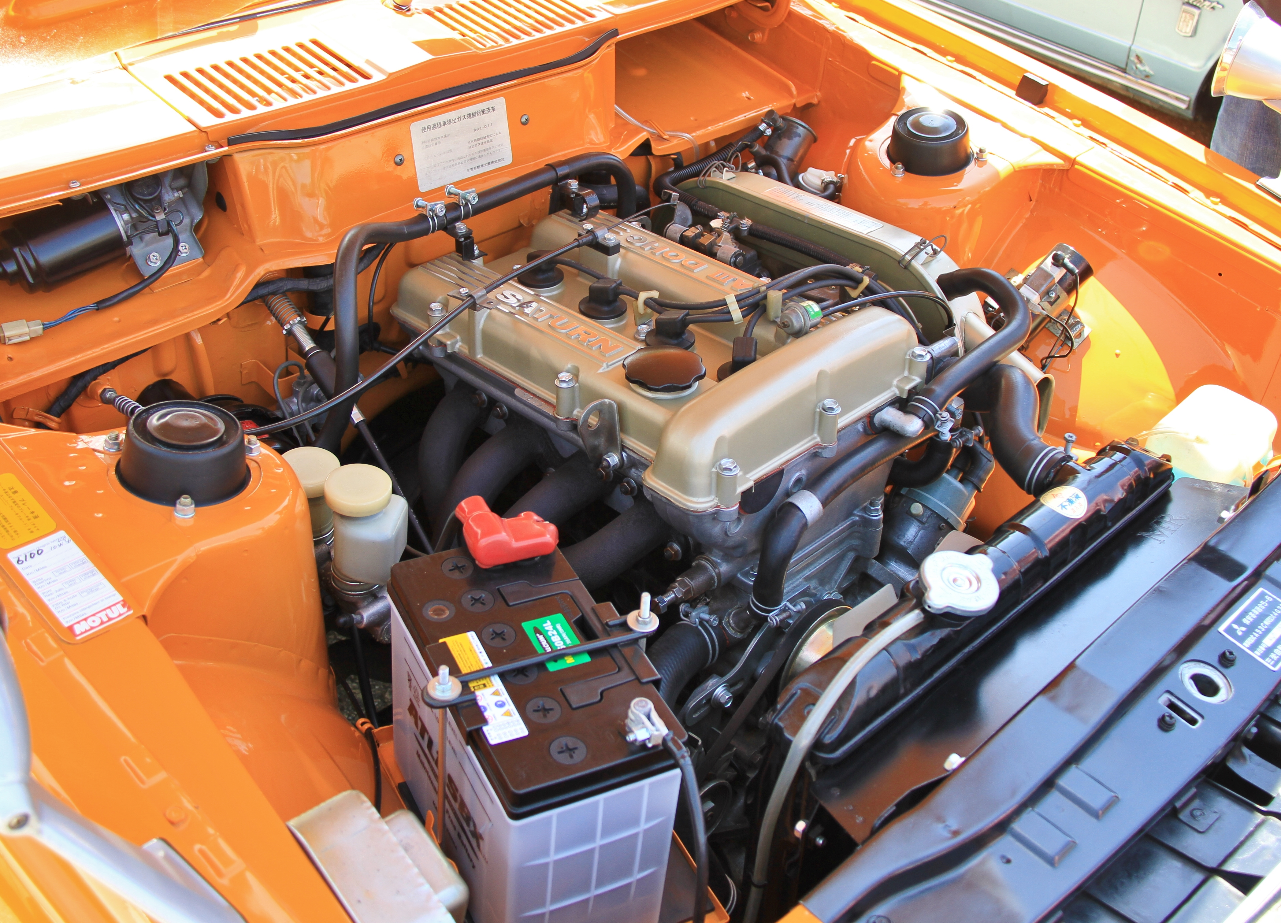 Mitsubishi 4G32 Saturn